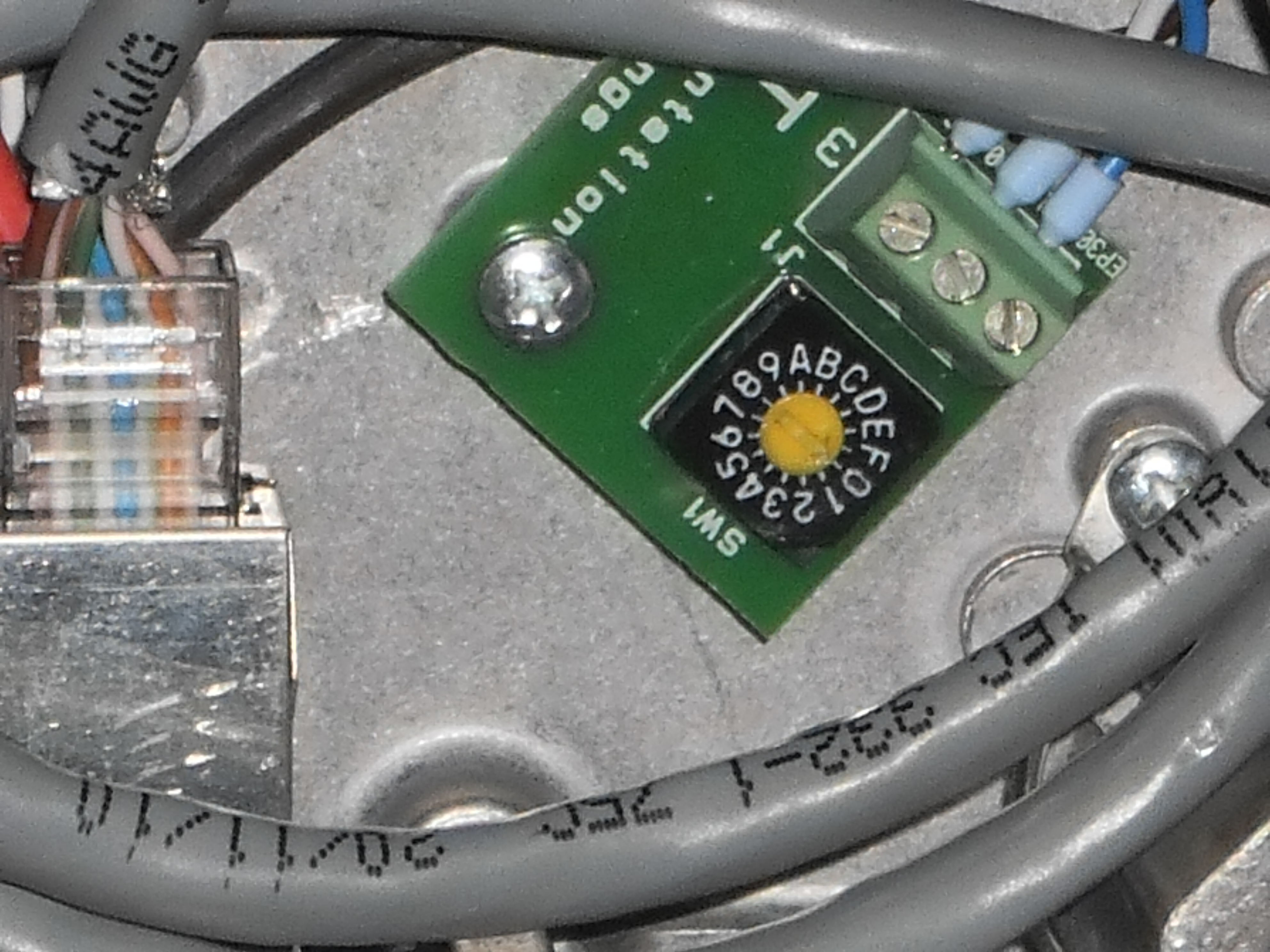 part of electronic system marked with hexadecimal notation